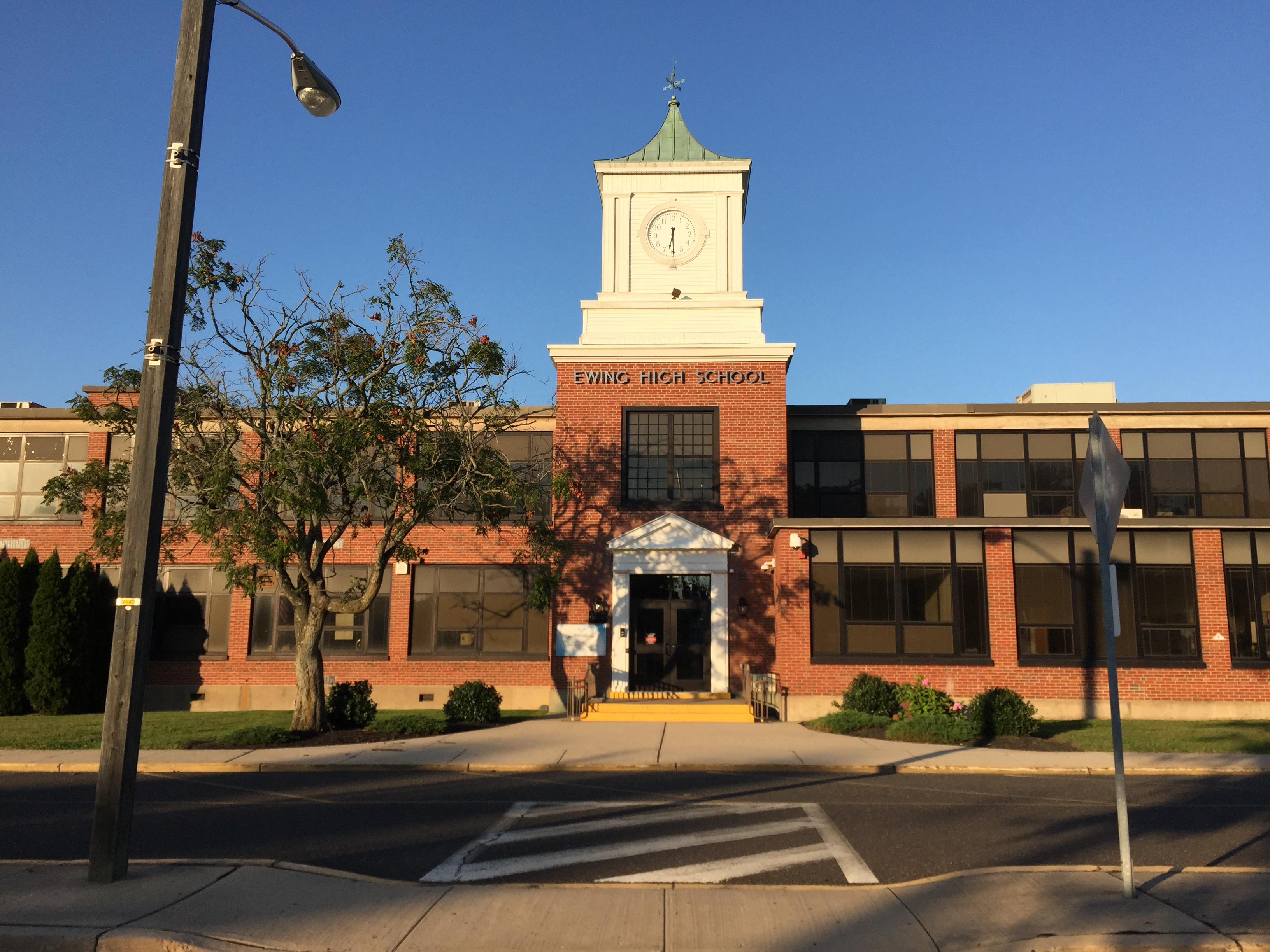 The main entrance and clock tower of Ewing High School in Ewing Township, Mercer County, New Jersey